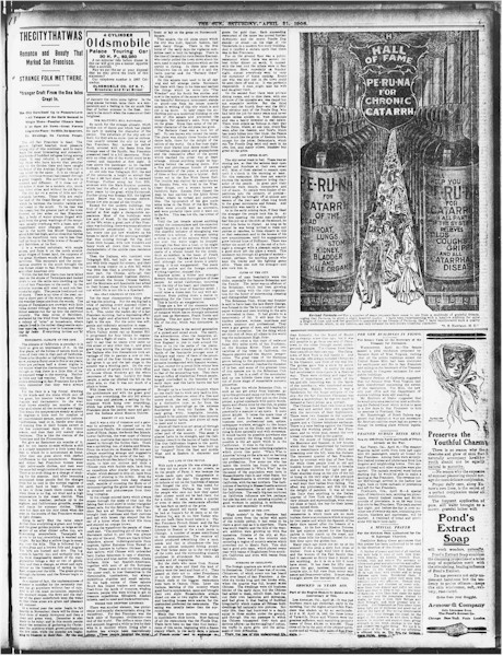 First installment of Will Irwin's series "The City That Was" on S.F. earthquake of April 18, 1906